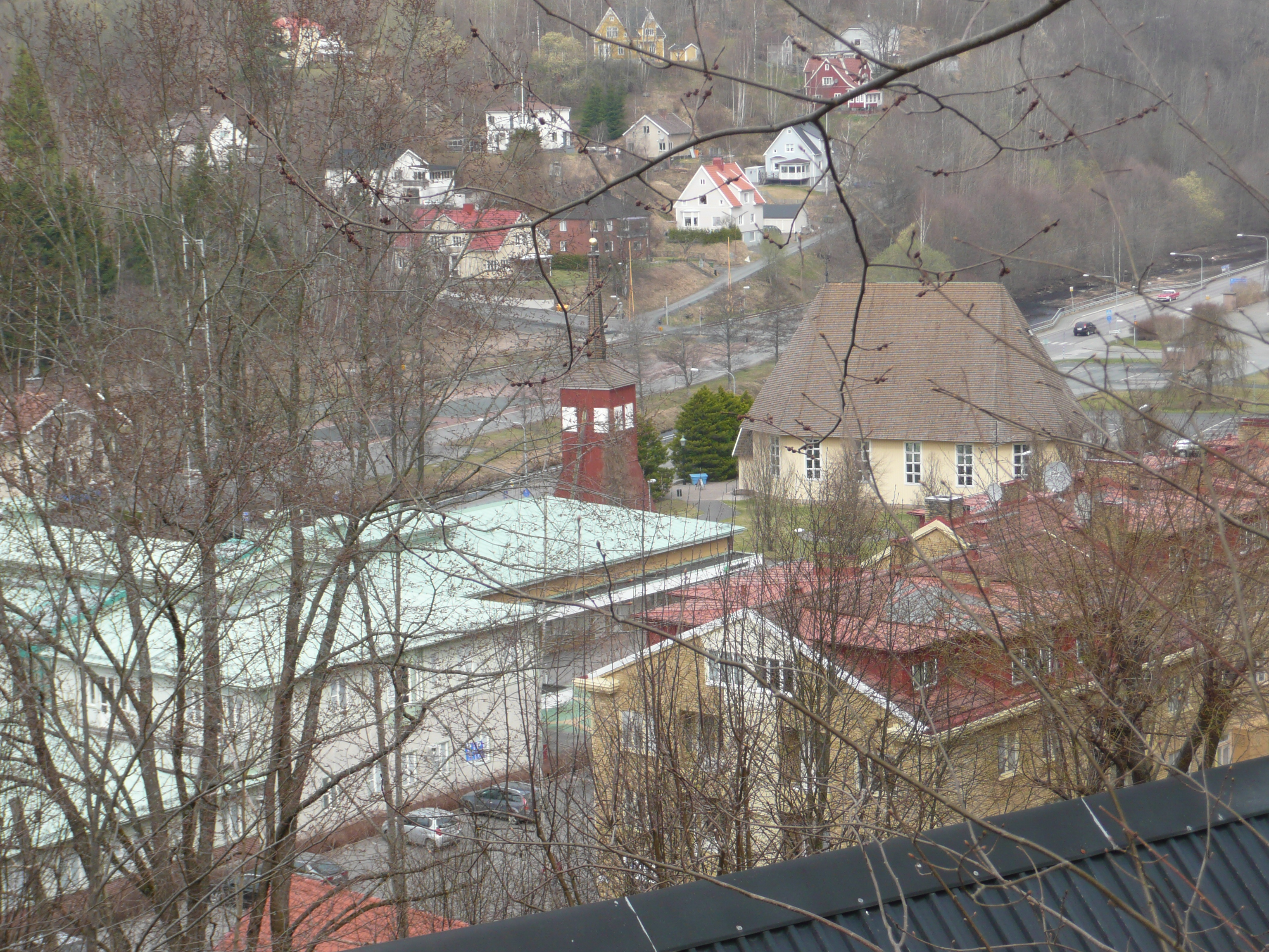 Center and church of Norrahammar, Sweden